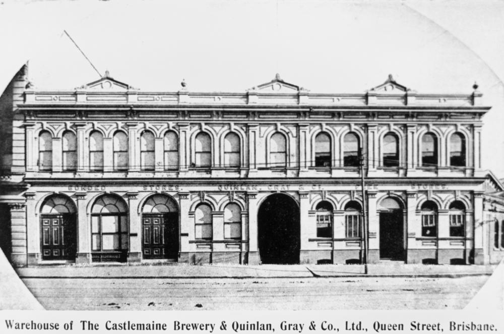 Warehouse of the Castlemaine Brewery and Quinlan, Gray & Co. Ltd., ca. 1900 Castlemaine Perkins Limited was established in 1878 by Fitzgerald, Quinland and Co. and called Castlemaine Brewery.